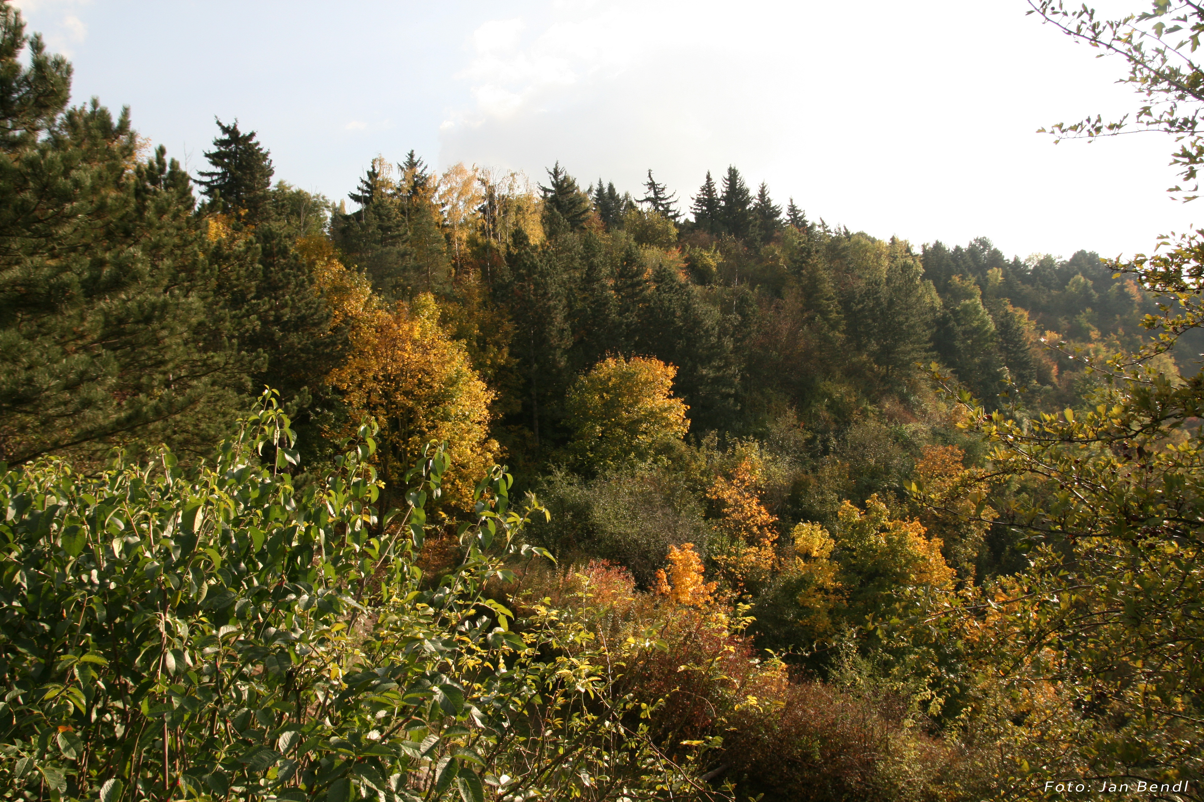 Natural monument Podolský profil in Prague, Czech Republic